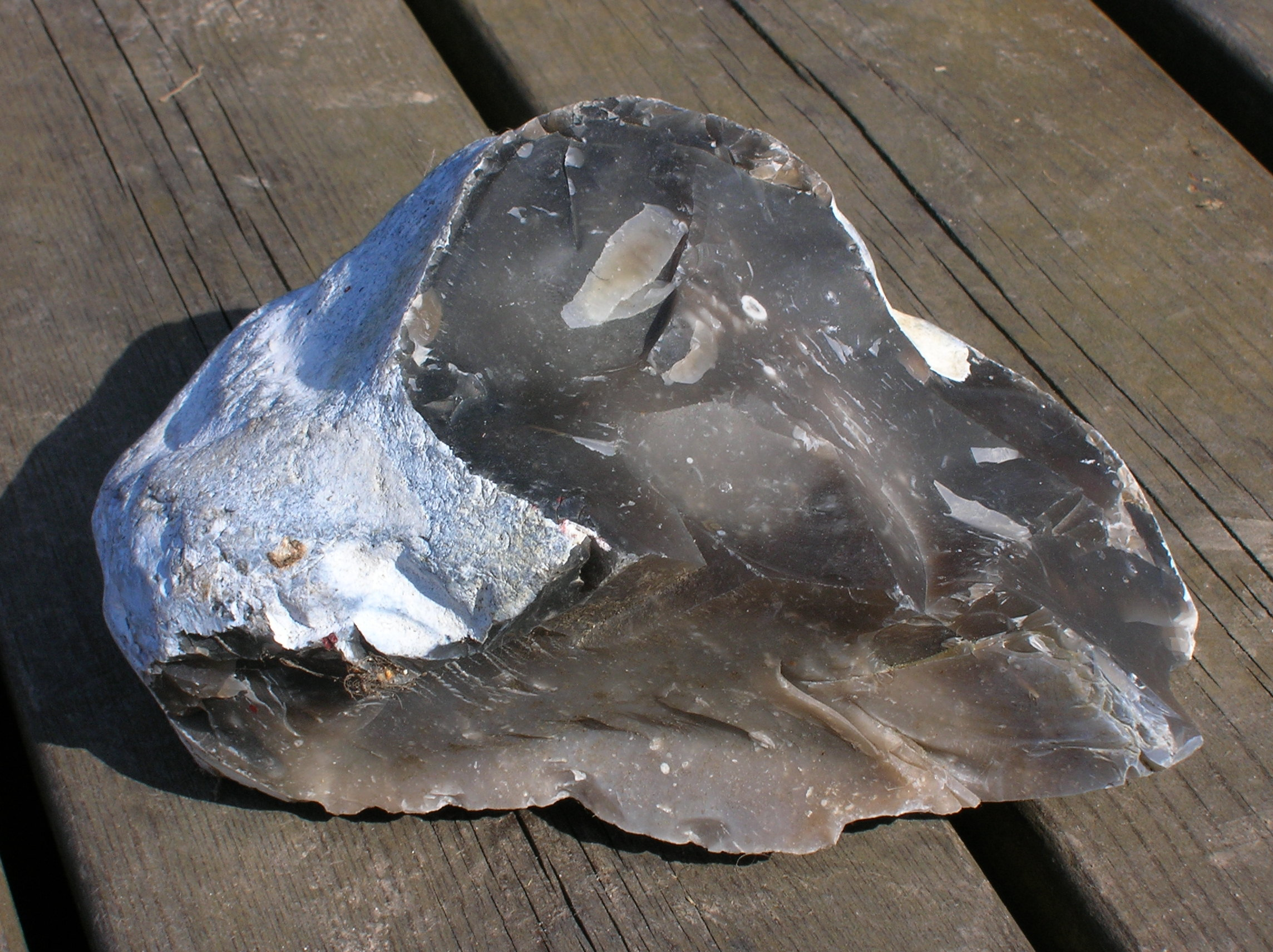 A flintstone